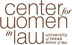 Logo